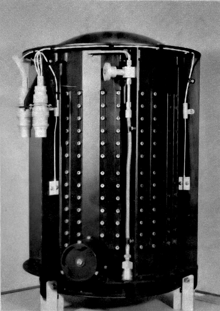 A model of the Multihundred-Watt Radioisotope Thermoelectric Generator units included on the Voyager space crafts.